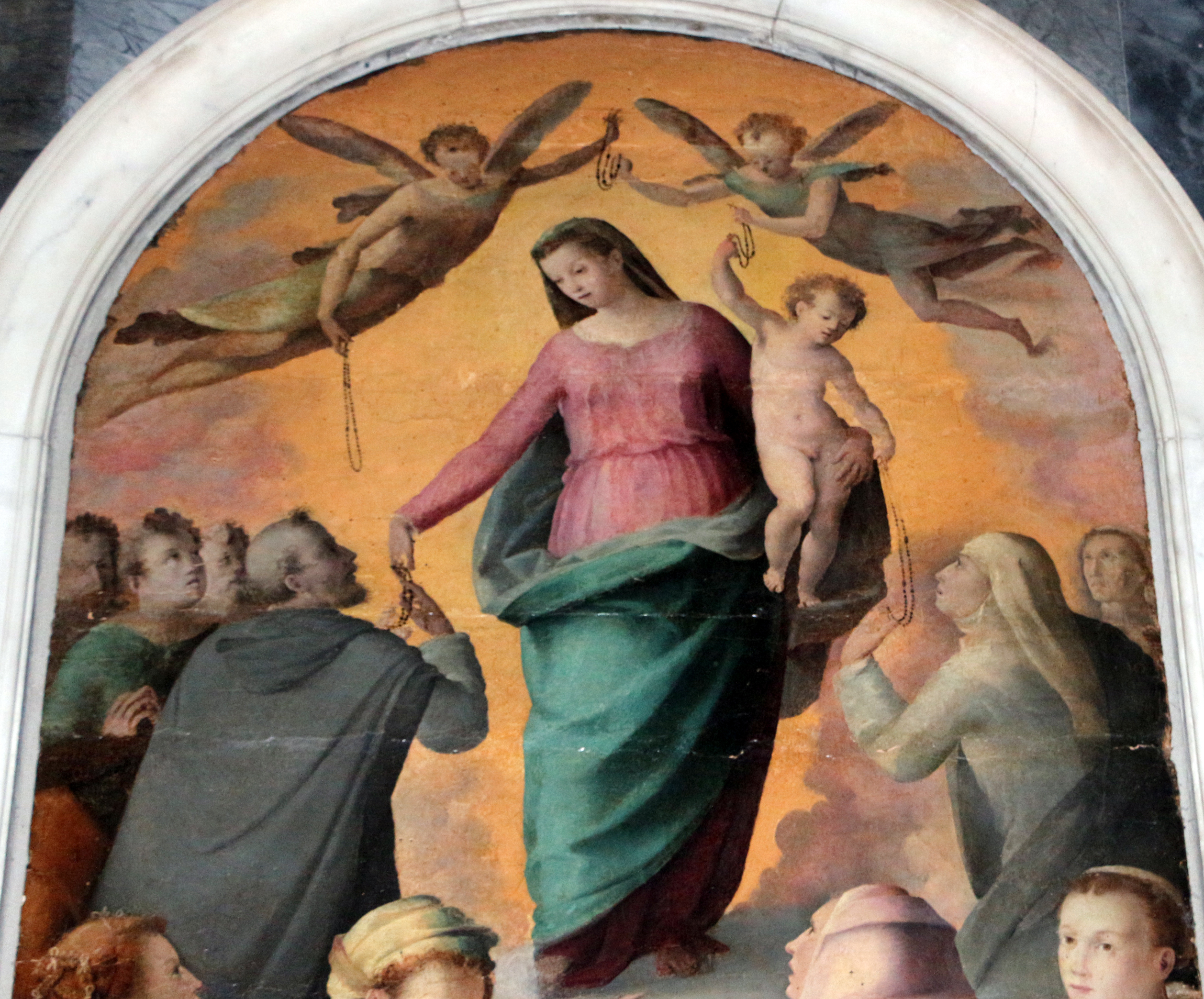 San Giovanni Battista (Pomarance)